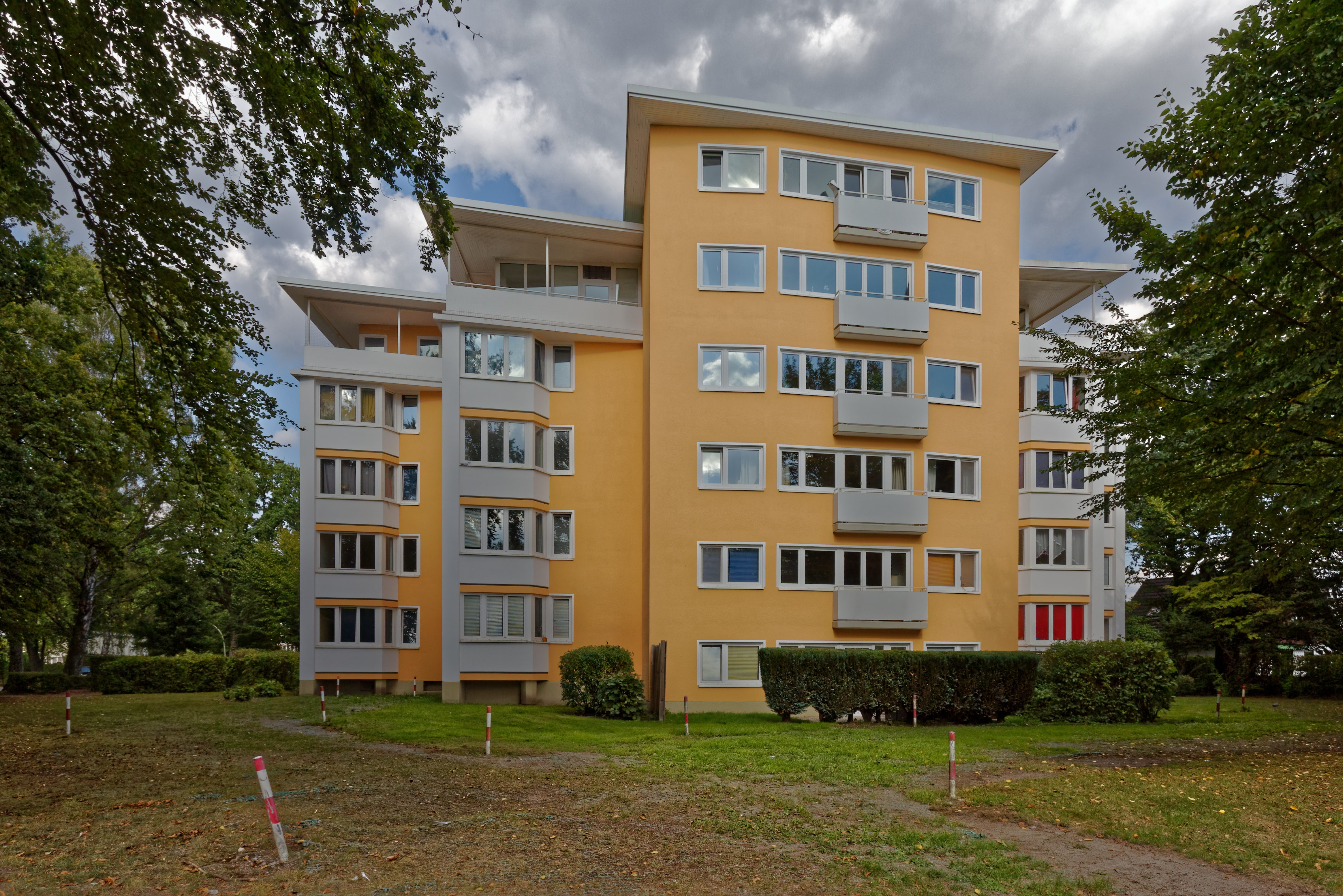 Hamburg-Bramfeld, garden city Hohnerkamp, building Hohnerkamp 90This is a photograph of an architectural monument.